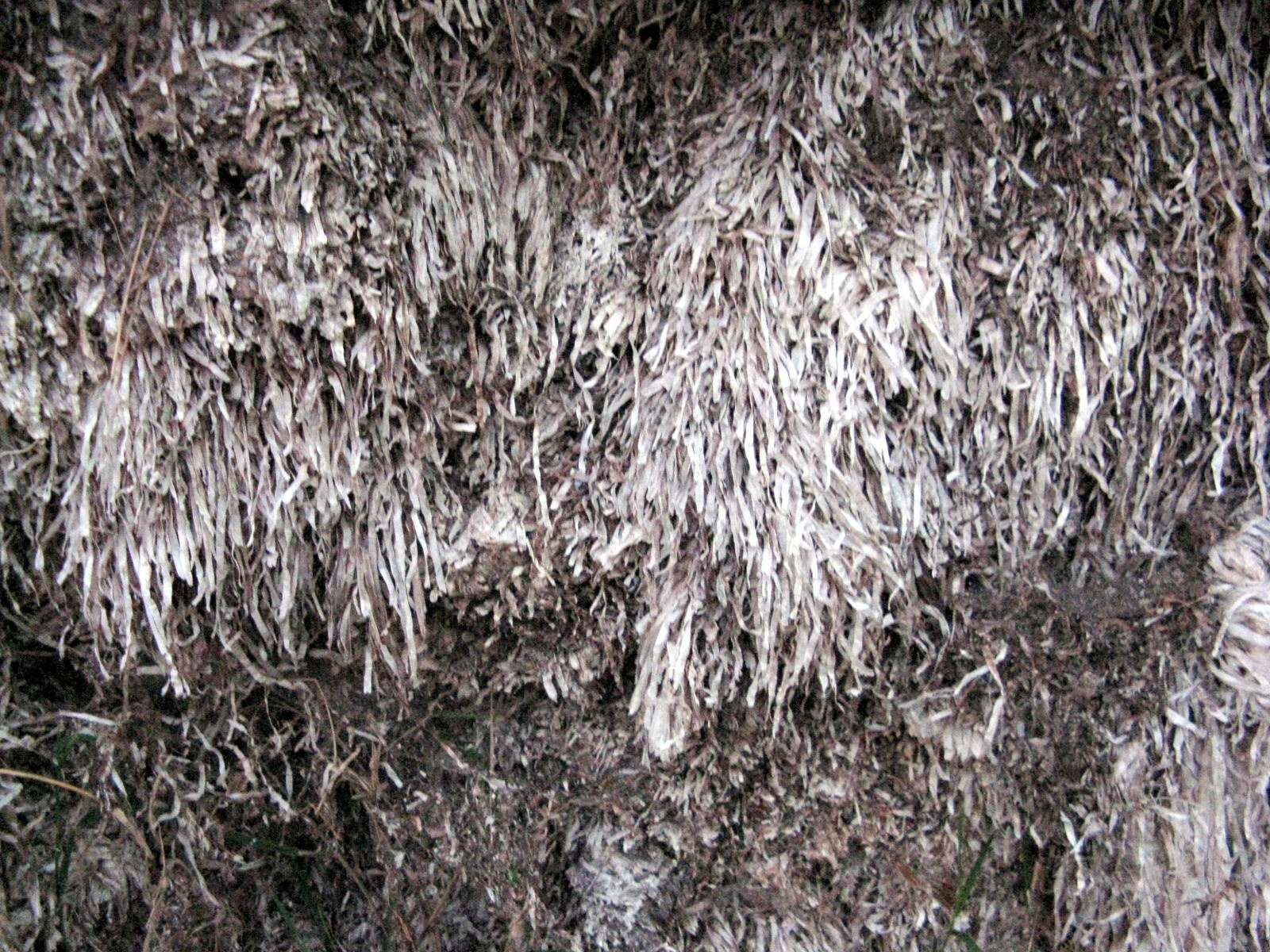 weed used in sea weed dyke